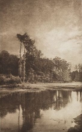 Melton Meadows, a photograph by English landscape photographer Alfred Horsley Hinton (1863–1908). Hinton believed this to be his best photograph (see The Amateur Photographer, Vol. 45, various issues).